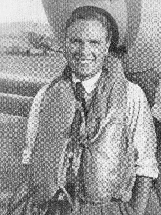 David Moore Crook, photograph September 1940.